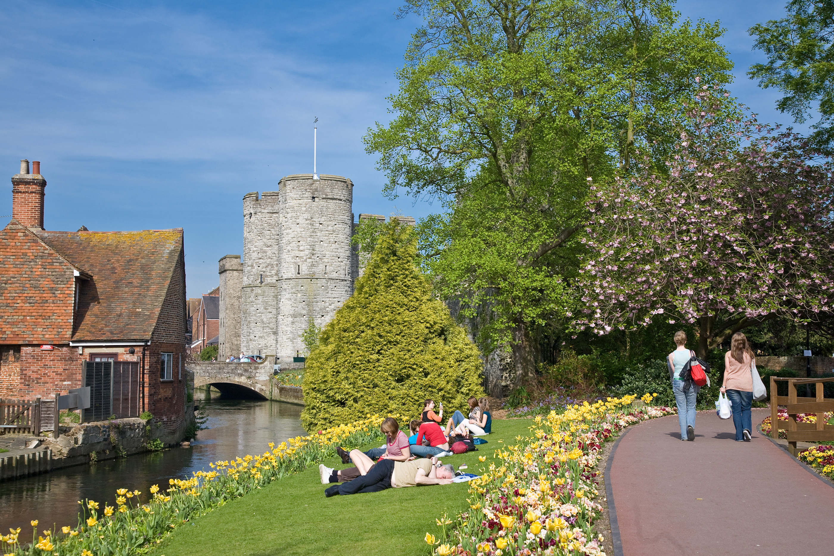 The River Stour in Canterbury, England. Taken by myself with a Canon 5D and 24-105mm f/4L IS lens.